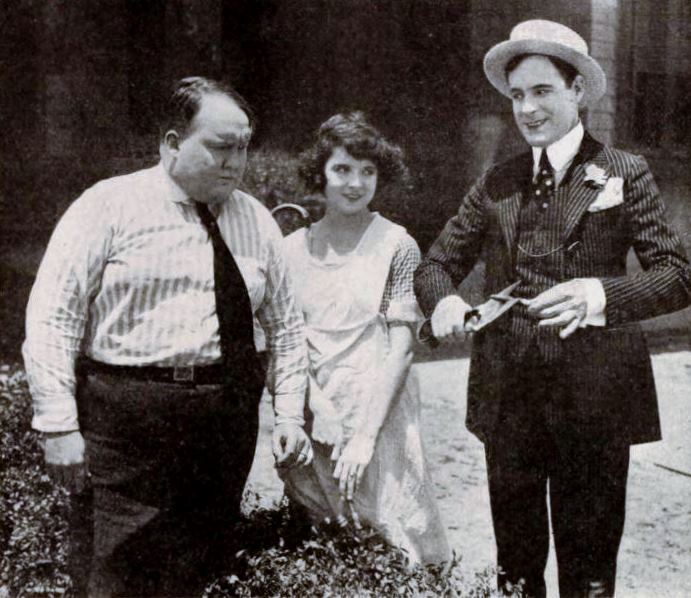 Still from the American comedy film So Long Letty (1920) with Walter Hiers, Colleen Moore, and T. Roy Barnes, on page 91 of the September 11, 1920 Exhibitors Herald.